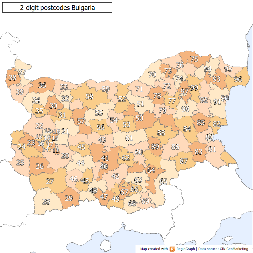 2-digit postcodes Bulgaria: postcode areas, described through the first two digits of the Bulgarian postcode system.